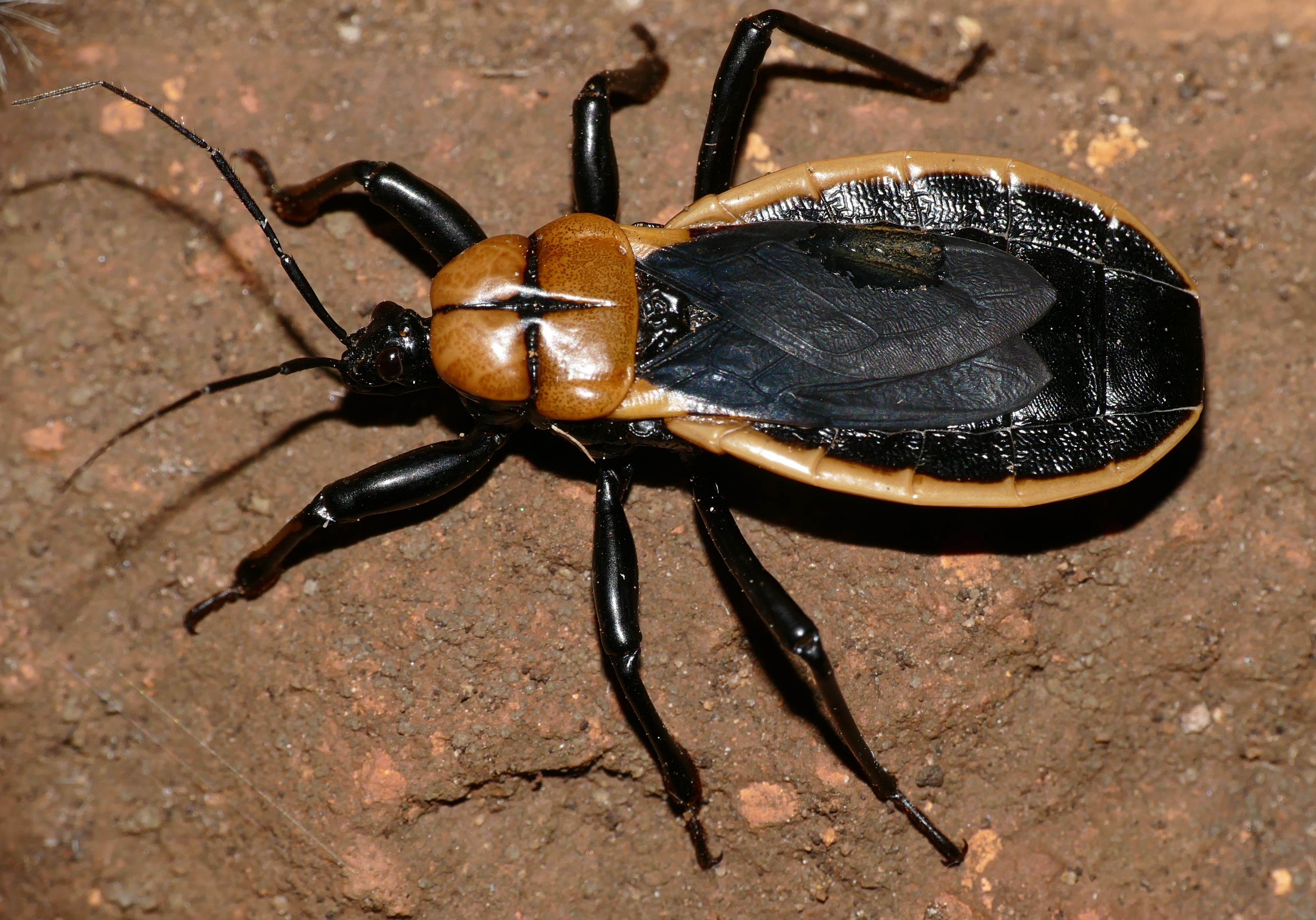 Ntshondwe Camp, Ithala Game Reserve, Kwazulu-Natal, SOUTH AFRICA